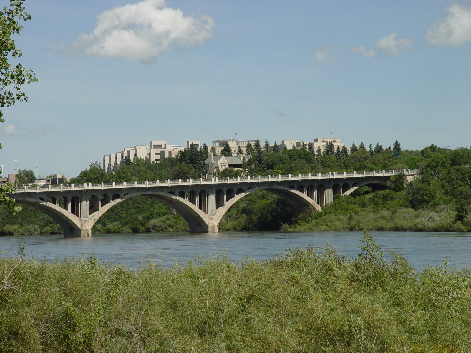 A photograph of the University Bridge in Saskatoon, Saskatchewan (also known as the 25th Street Bridge). The University of Saskatchewan is in the background.